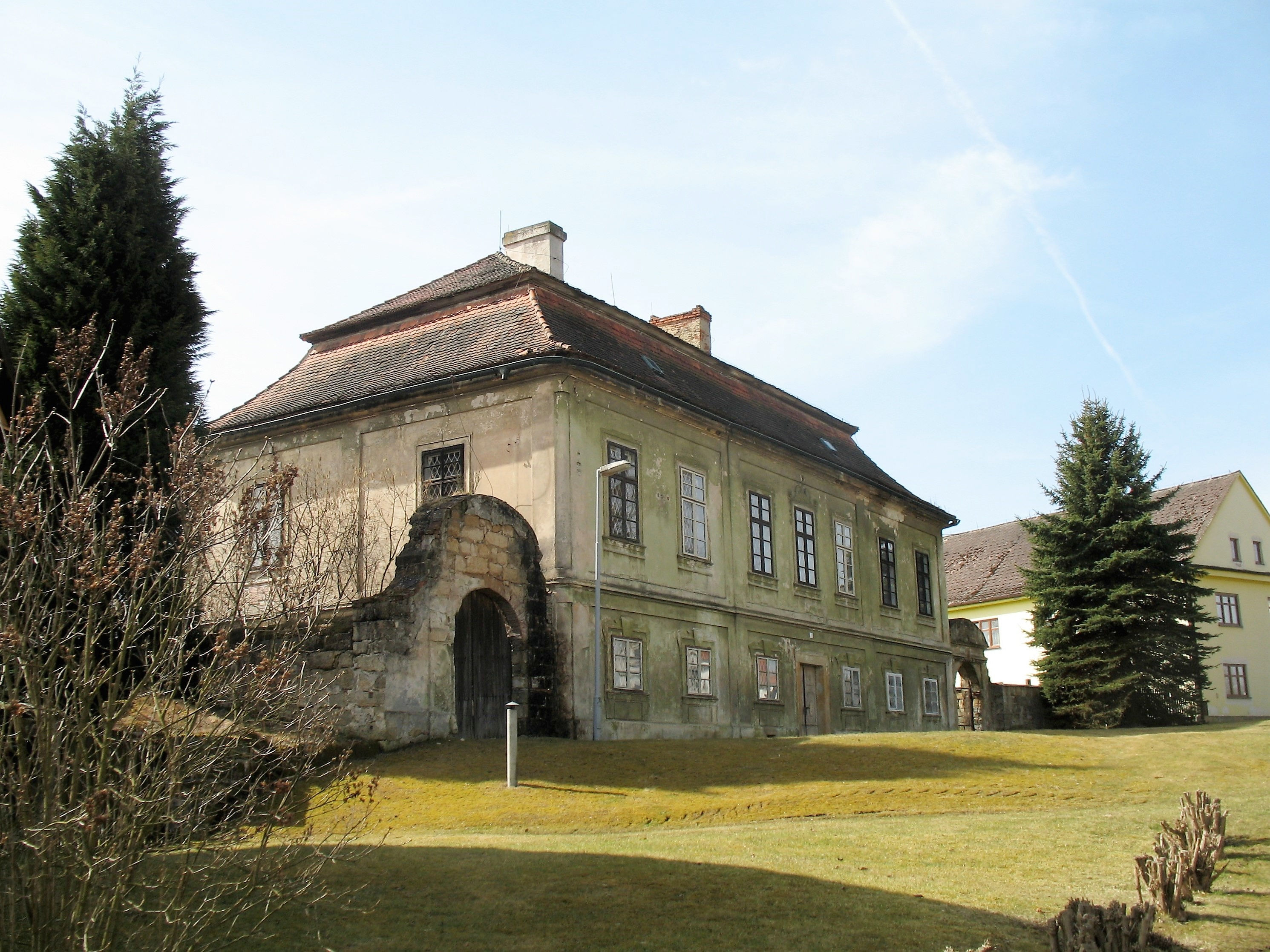 Pavlovice, village square, Česká Lípa District, Northern Bohemia. Barock rectory